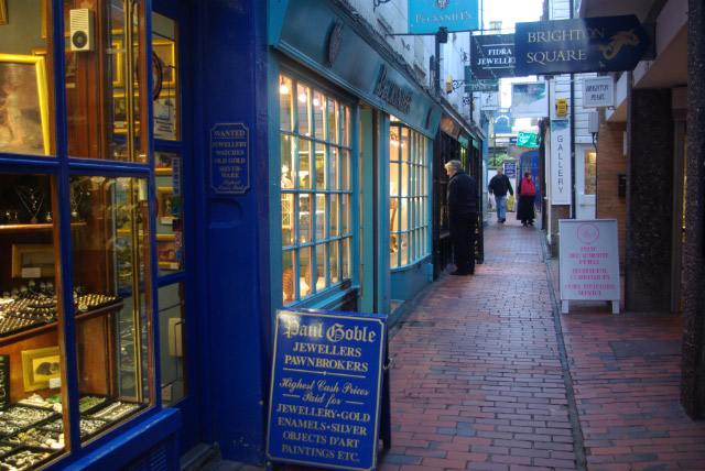 The Laines, Brighton 'The Laines' is the name given to a compact area of very narrow streets and passages just to the west of Old Steine. The atmosphere is reminiscent of the old quarters of many Mediterranean cities. Although there is a variety of shops here, up-market jewellers and art galleries proliferate.